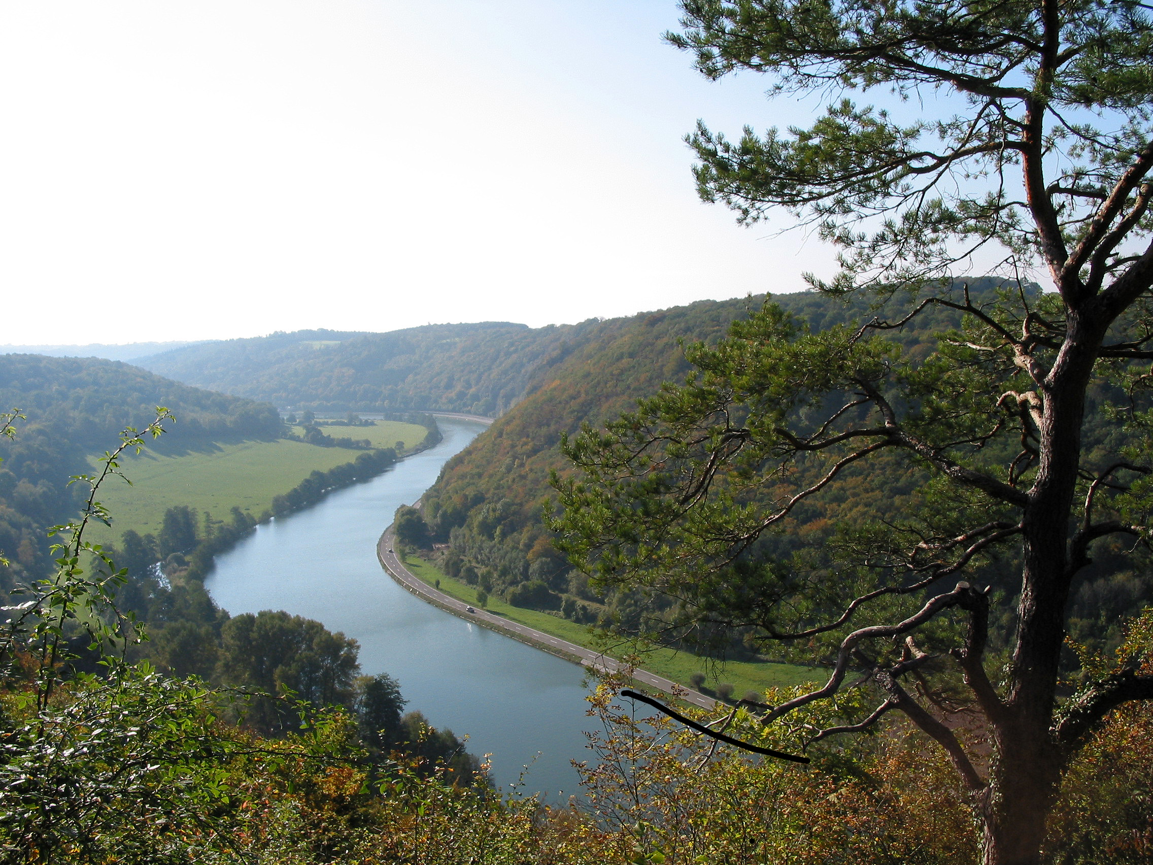 The Meuse, seen from the top of "Freÿr" Rocks along the "Colébi" and "Roche al Rue" called places between Anseremme and Waulsort (Belgium).